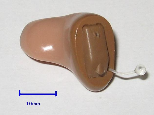 Hidden Hearing has over 25 years of experience helping people with hearing loss in Ireland. We are the leading private provider of hearing care solutions for adults in Ireland. Hearing loss can affect every aspect of your life, what things aren't you doing, enjoying or experiencing because you can't hear to your full potential? It isn't just a nuisance — it's a quality of life issue. The good news is that wearing hearing aids can really help and with today's modern advancements in hearing aid technology, there is no reason to "just put up" with hearing loss anymore. Some digital hearing aids are so small and invisible that people can't tell you're wearing them If you are worried about your hearing, schedule a free hearing test online or book a free ear wax removal with our hearing professionals or visit your local clinic.).